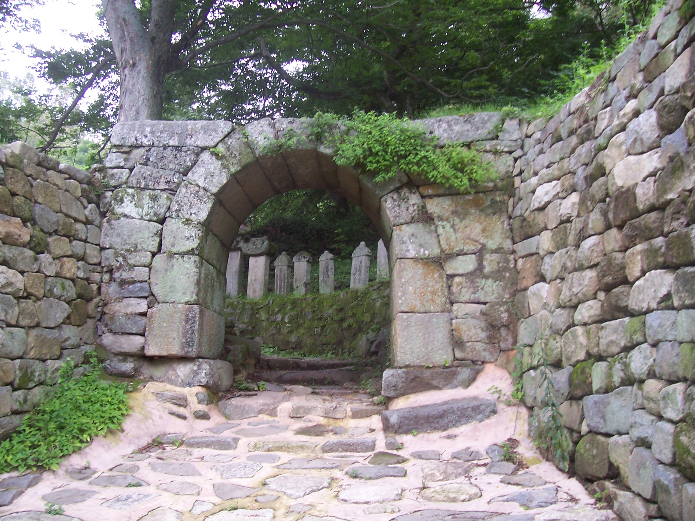 Mountain Top Fortress (2)